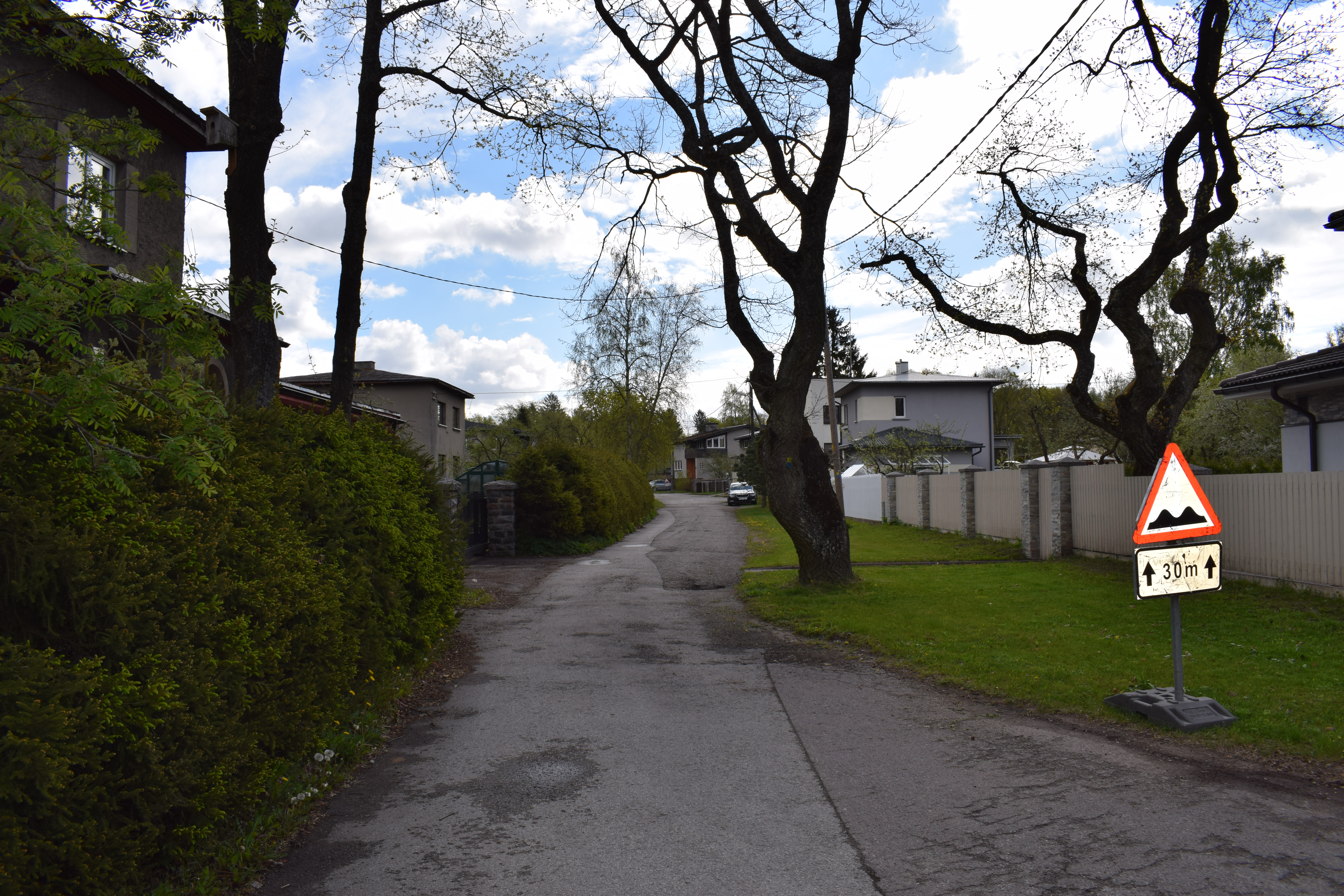 Kaunis tänav